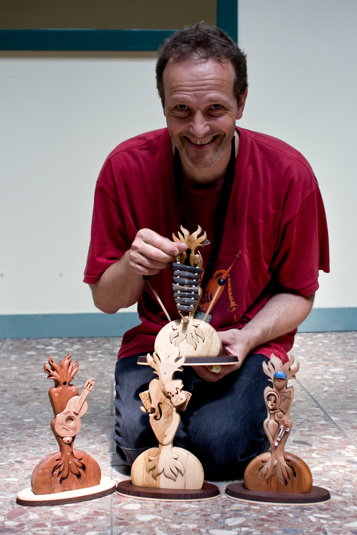 german worldmusic prize RUTH 2009